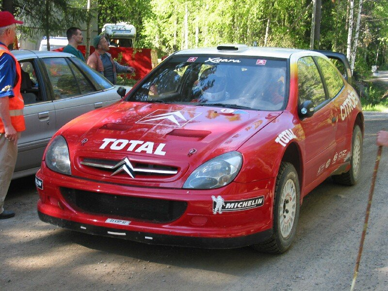 Citroën World Rally Team with their drivers Sébastien Loeb and Thomas Rådström testing in Finland in May, 2002.